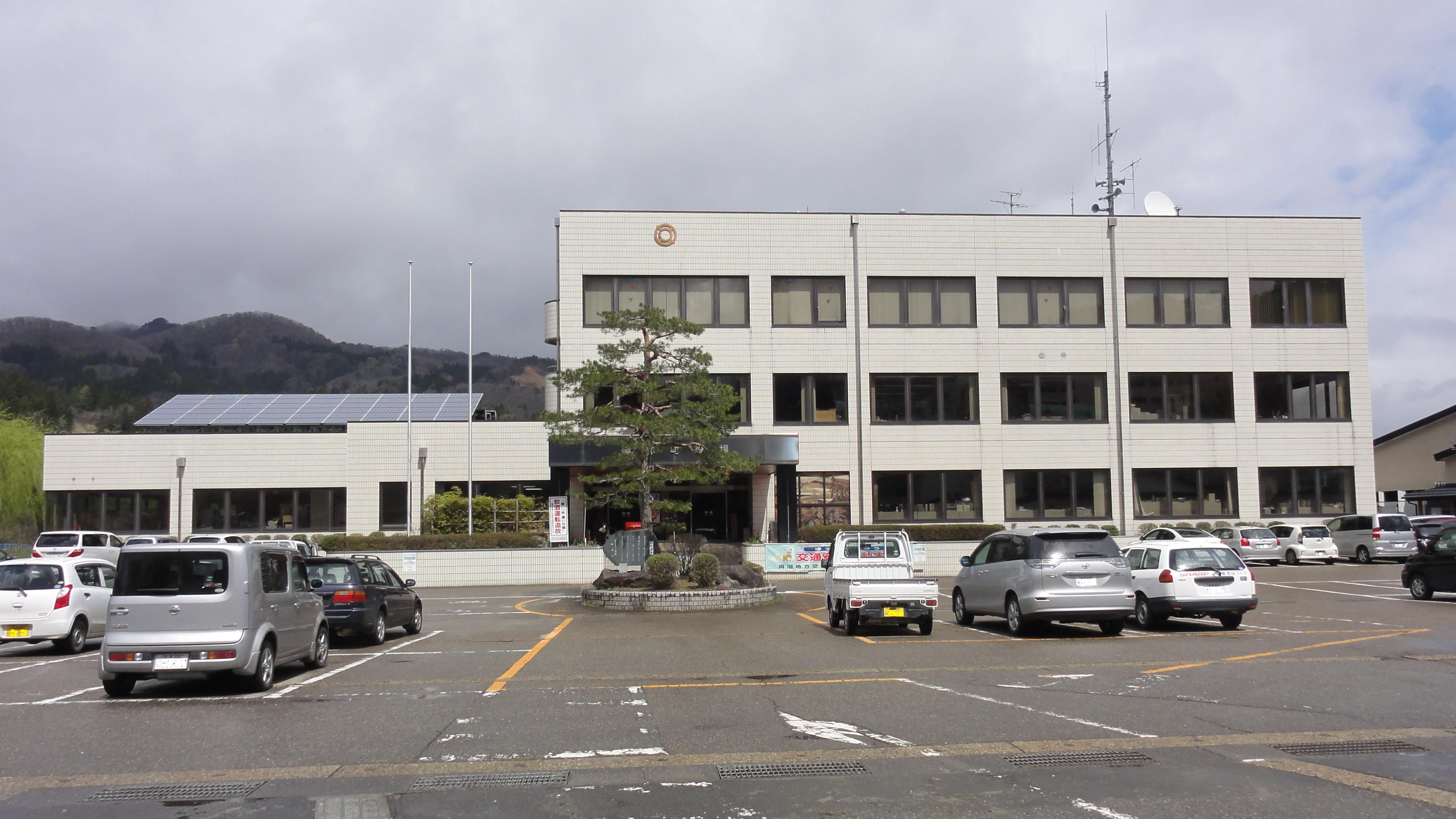 Yanaizu town office,Fukushima prefecture,Japan